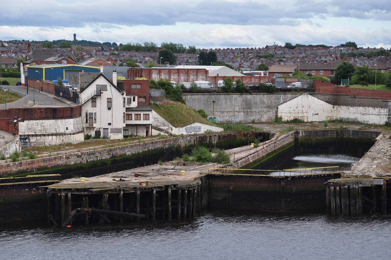 Abandoned docks in the harbour of South Shields (South Tyneside, Tyne and Wear, England, United Kingdom)